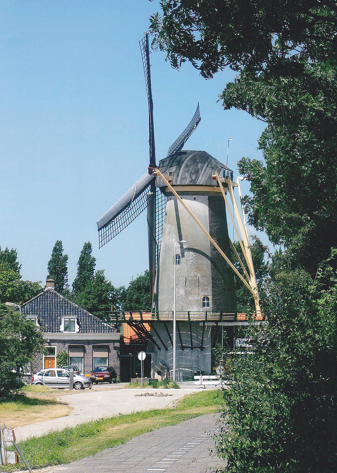 Mill nooitgedacht for the embankment in Spijkenisse